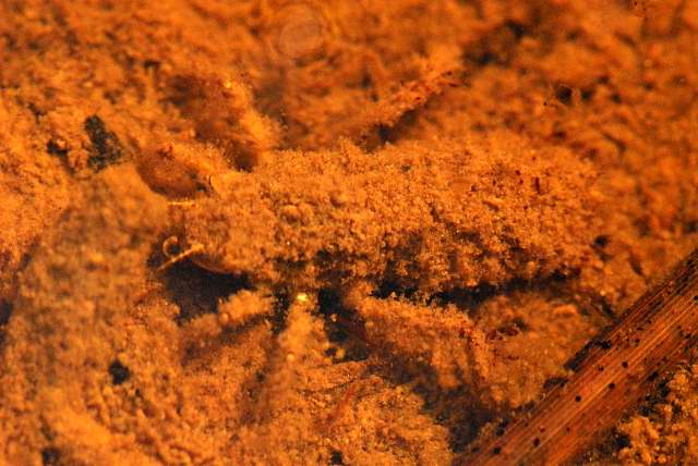 Sympetrum sanguineum from Commanster, Belgian High Ardennes .